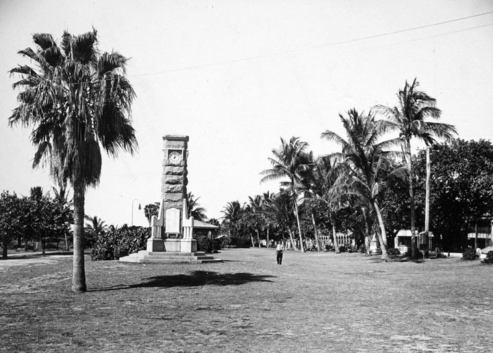 Anzac Memorial and Esplanade, Townsville. (Anzac Memorial Park and adjacent Banyan trees, The Strand, Townsville. The alternative names for Anzac Memorial Park are: The Strand Park; Townsville War Memorial.)